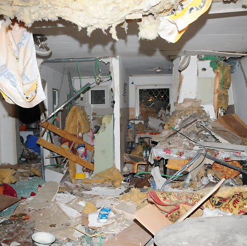 A house in Israel after a direct hit from a Gaza rocket For more updates: The Israel Defense Forces Facebook The Israel Defense Forces blog Follow us on Twitter